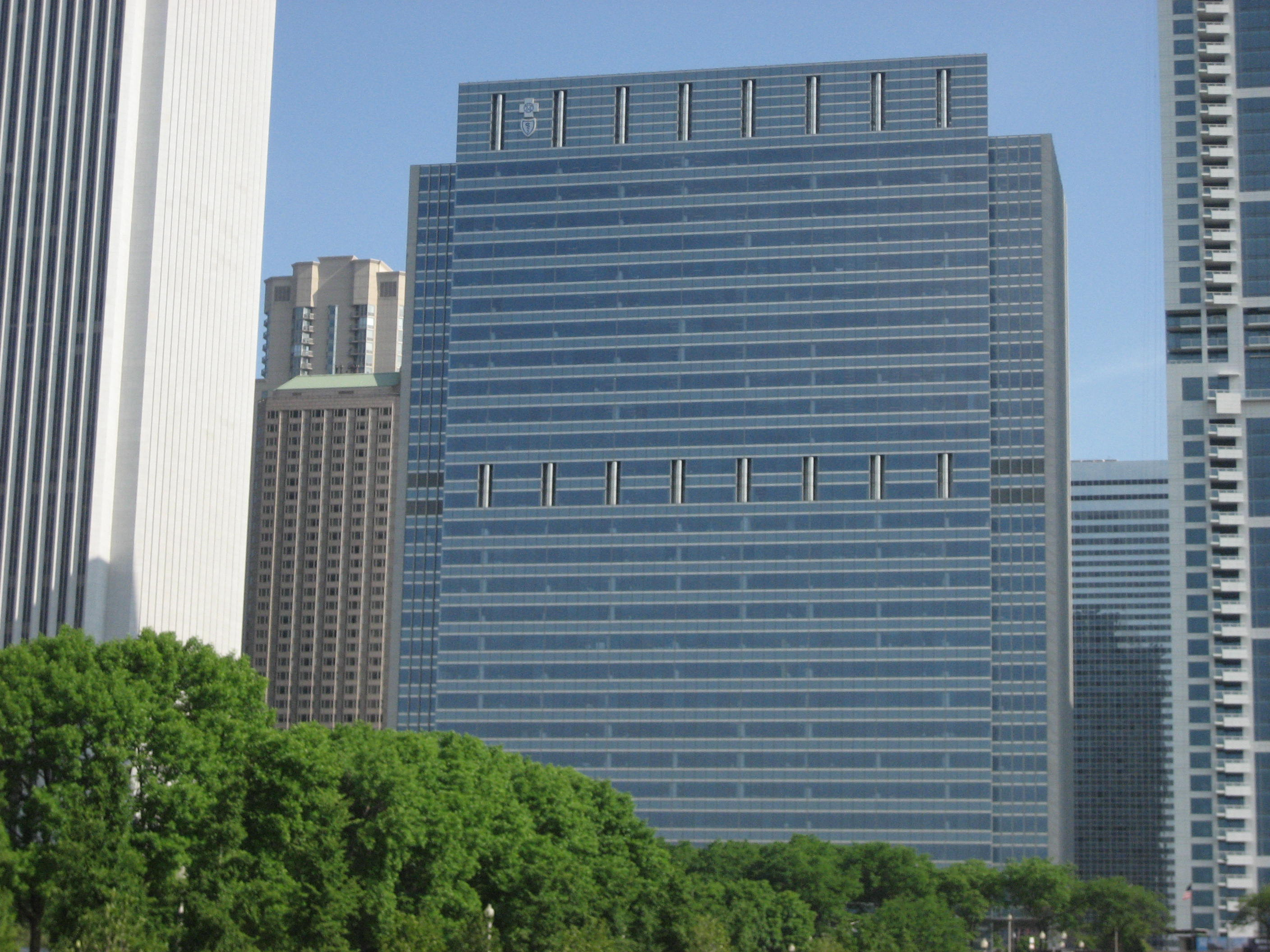 I Ryan Kirby am the author of this photo and release it to the public for all fair use.